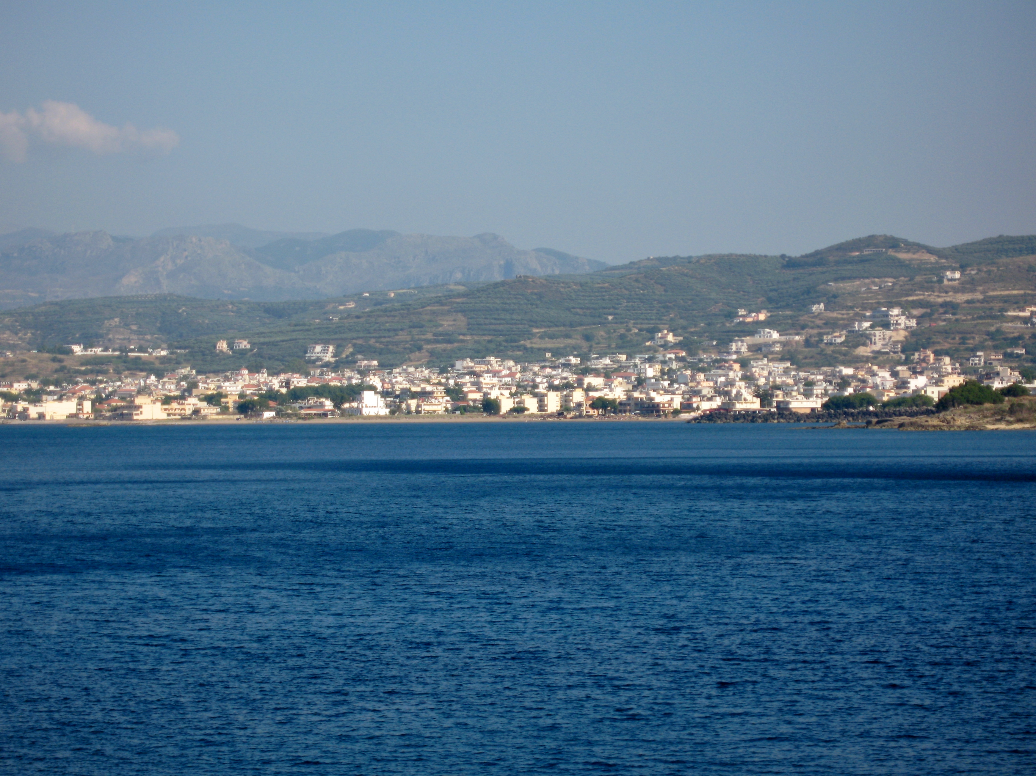 Kissamos, Nomos Chania, Crete, Greece